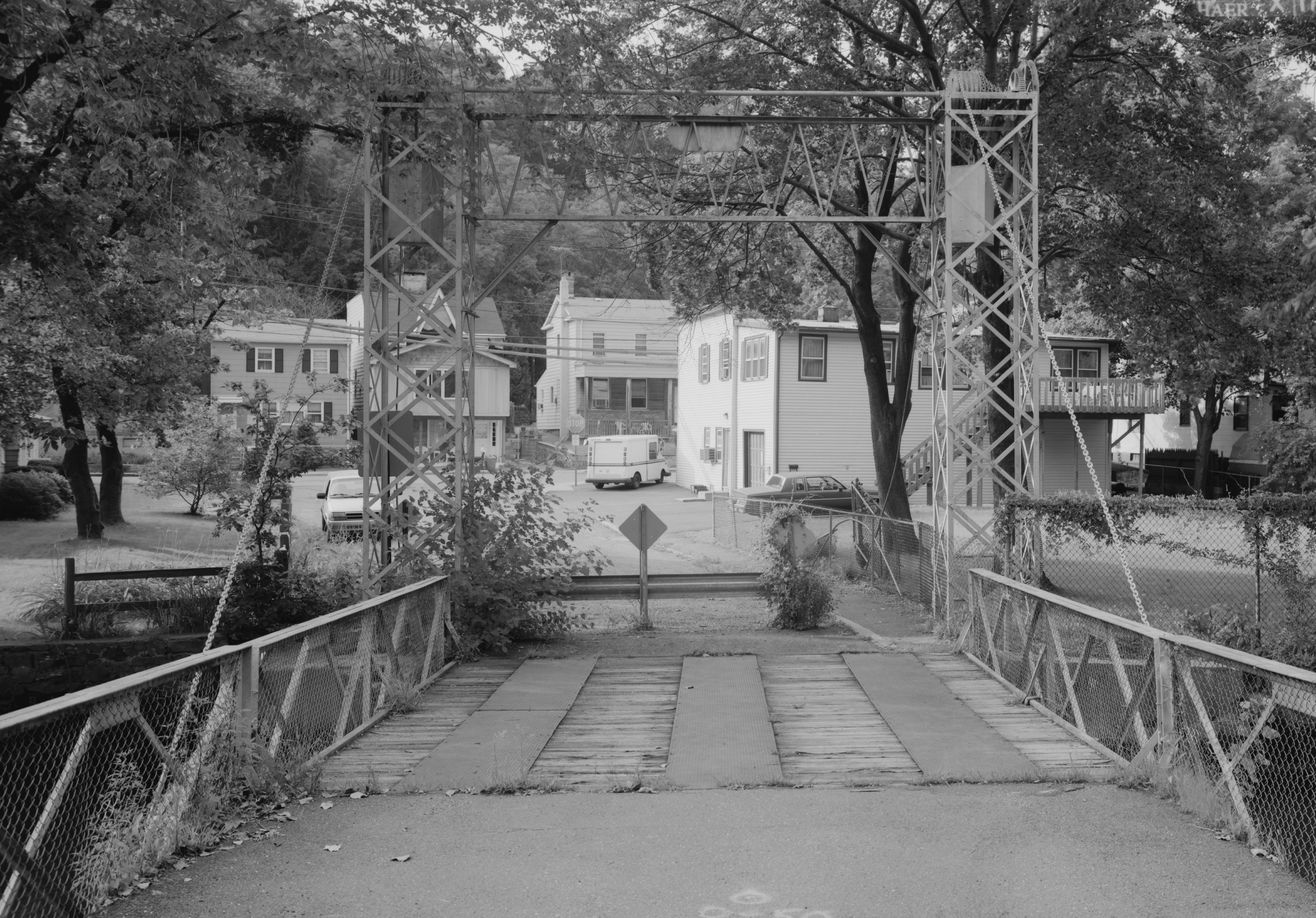 Sparkill Creek Drawbridge, Spanning Sparkill Creek at Bridge Street, Piermont (Rockland County, New York)